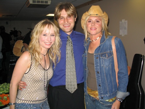 Christy Sutherland (left), Scott Dudelson (center), Anita Cochran (right)